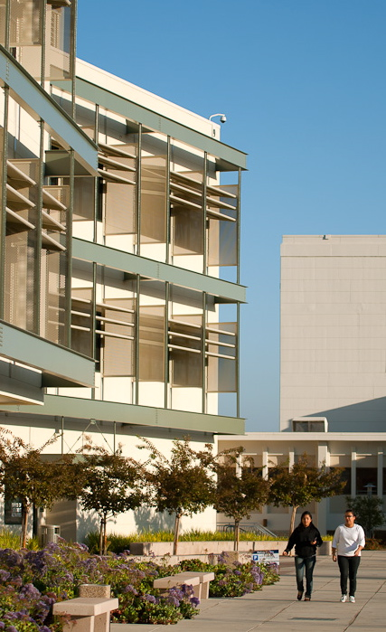 The new state-of-the-art Library & Learning Center at Cañada College provides students with unique learning opportunities.